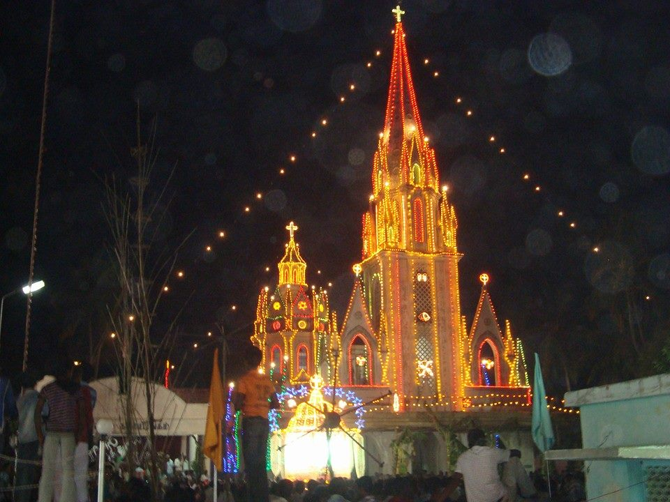 Church